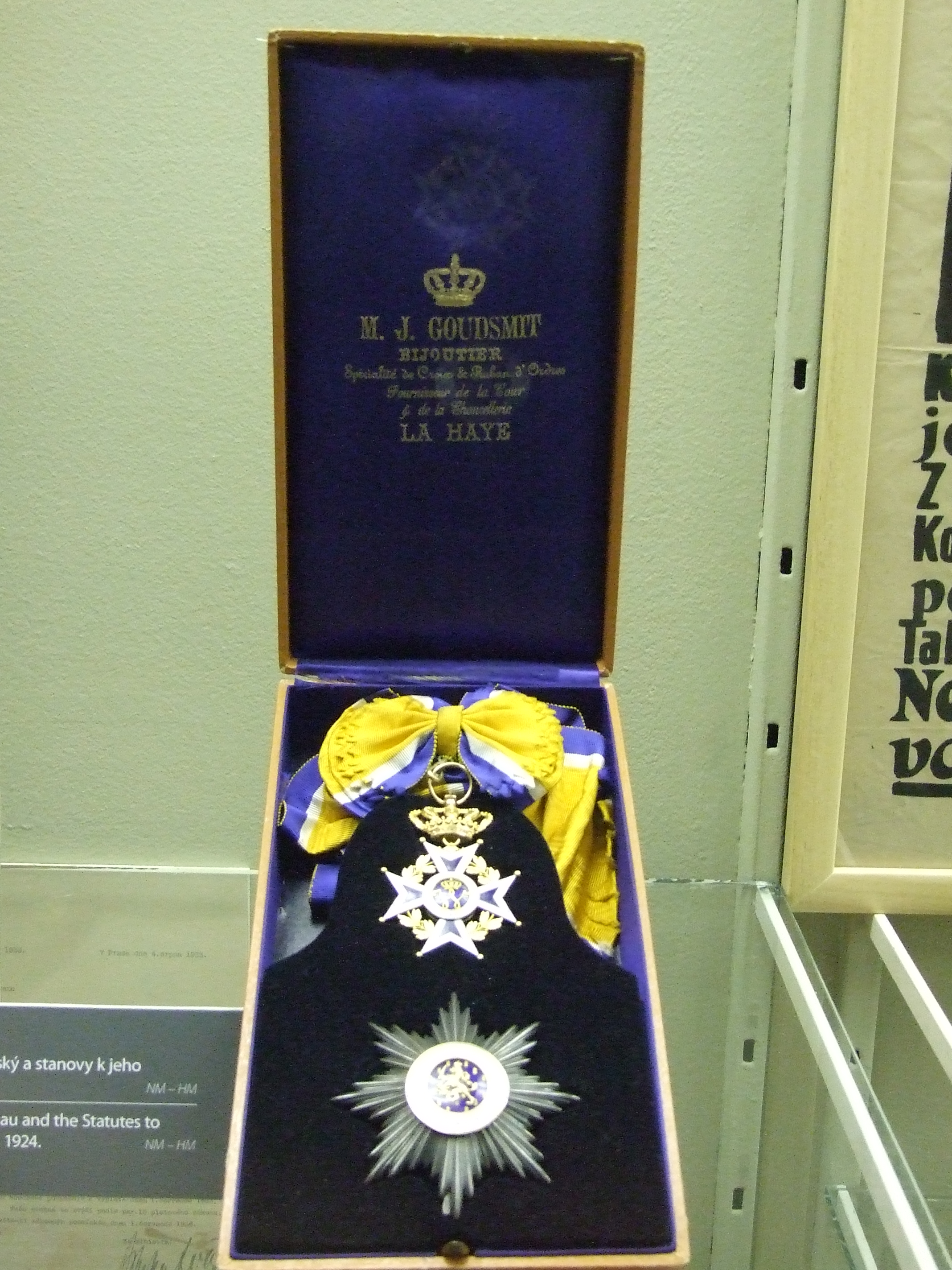 The Republic exhibition, National Museum in Prague